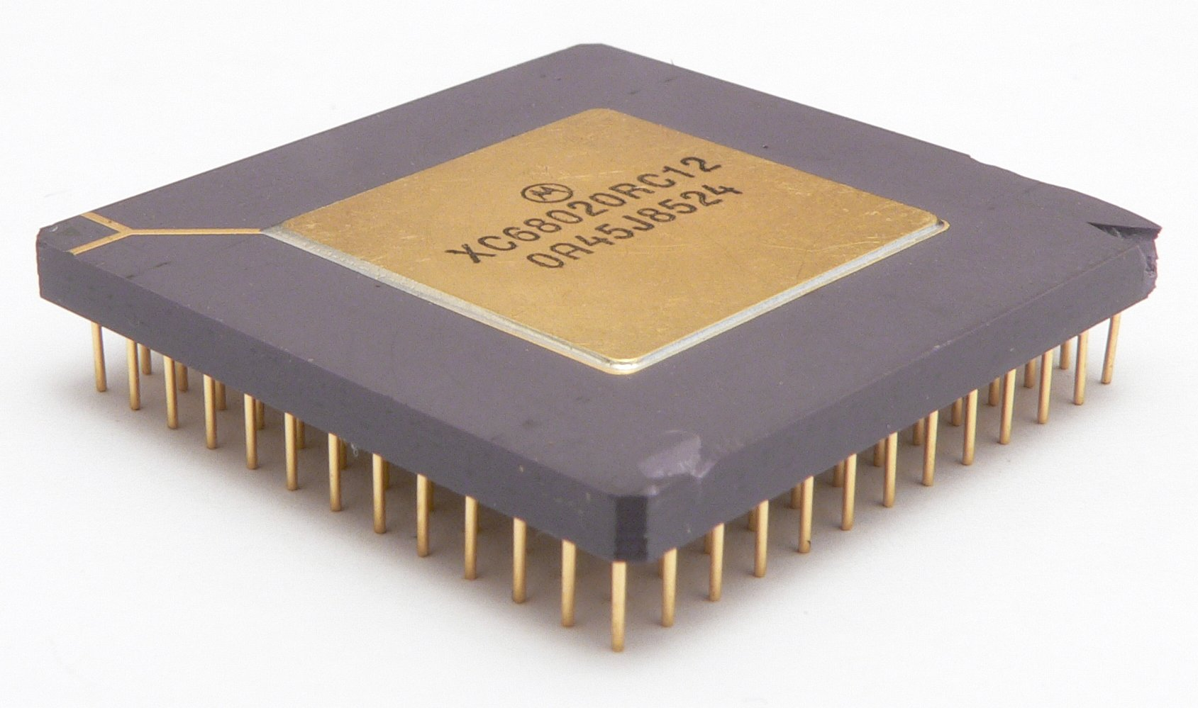 A Motorola XC68020 (prototype of the MC68020)